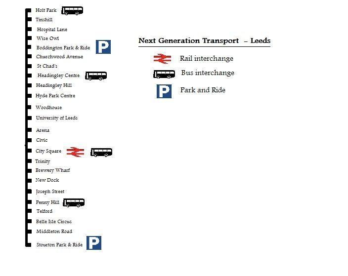 Next Generation Transport (NGT) - Leeds, a proposed trolleybus system in Leeds, West Yorkshire. It is proposed that construction shall start in 2017 and it shall open in 2020. Made using information retrieved on the 13th of June 2013.